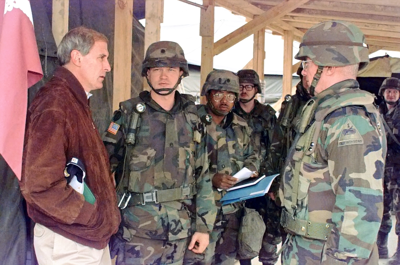 U.S Military Forces in Bosnia - Operation Joint Endeavor